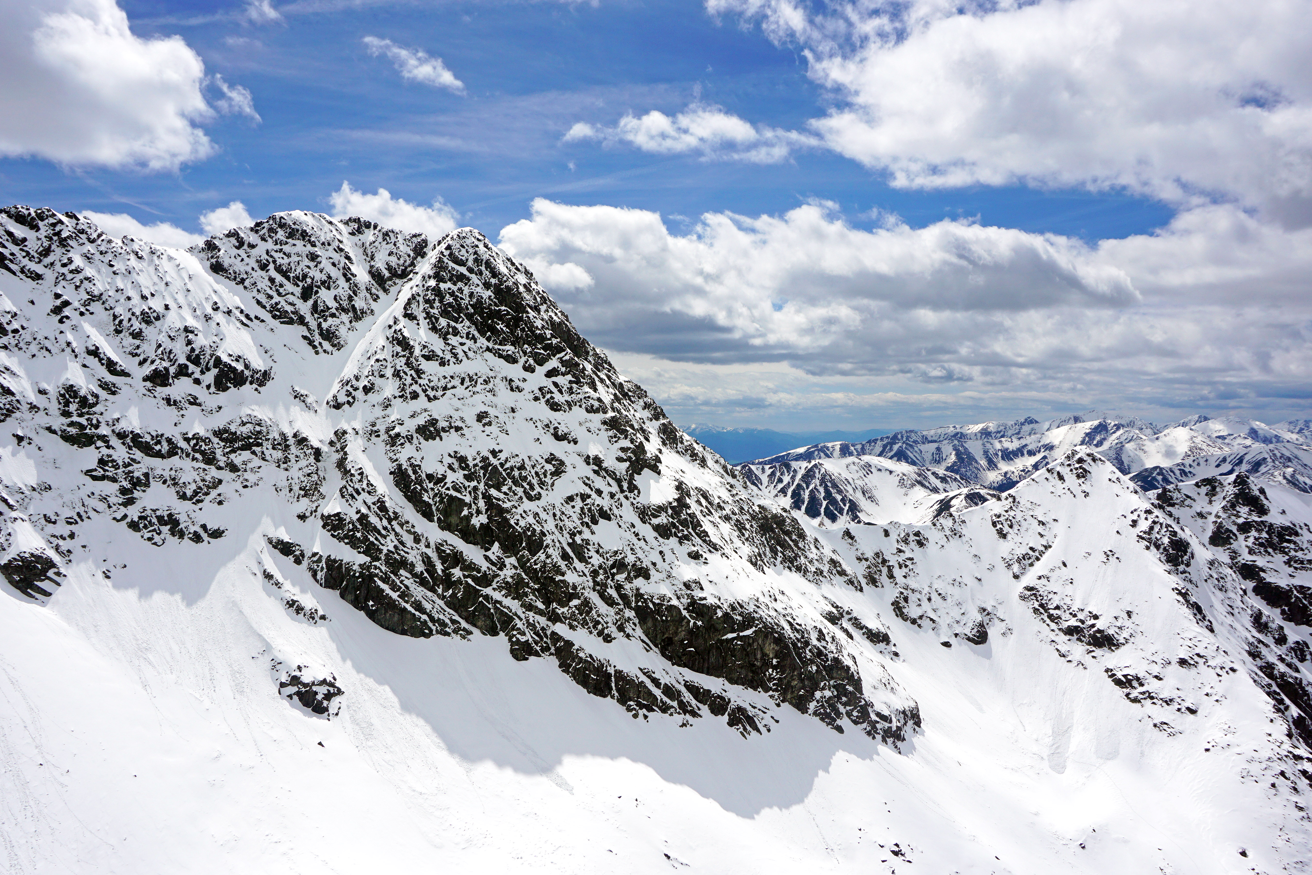 Panoramic view towards Gąsienicowa Turnia from Kościelec, Tatra National Park, Zakopane, Poland.